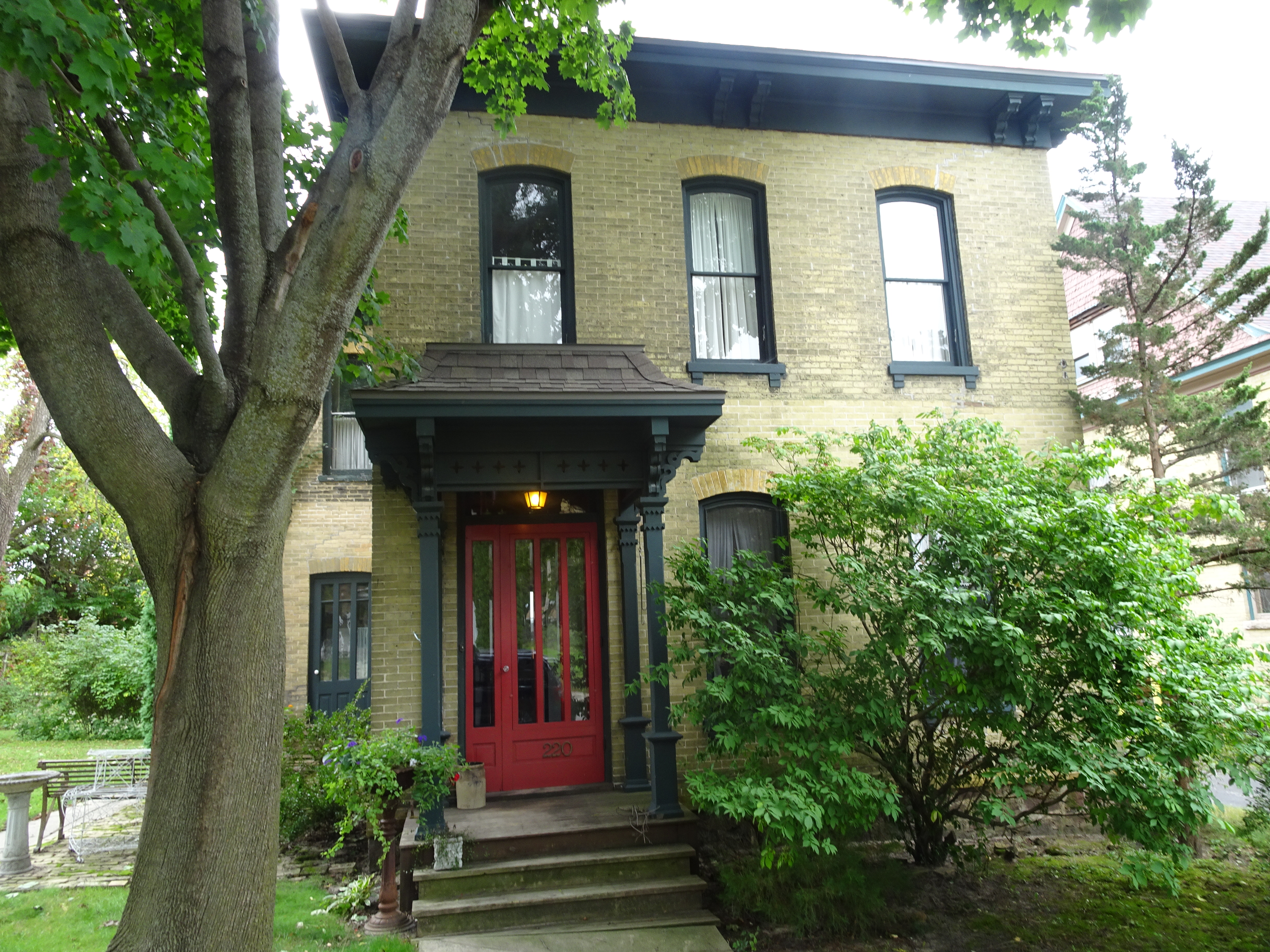 E.W. Farrington House, part of the Church Hill Historic District in Portage, Wisconsin.